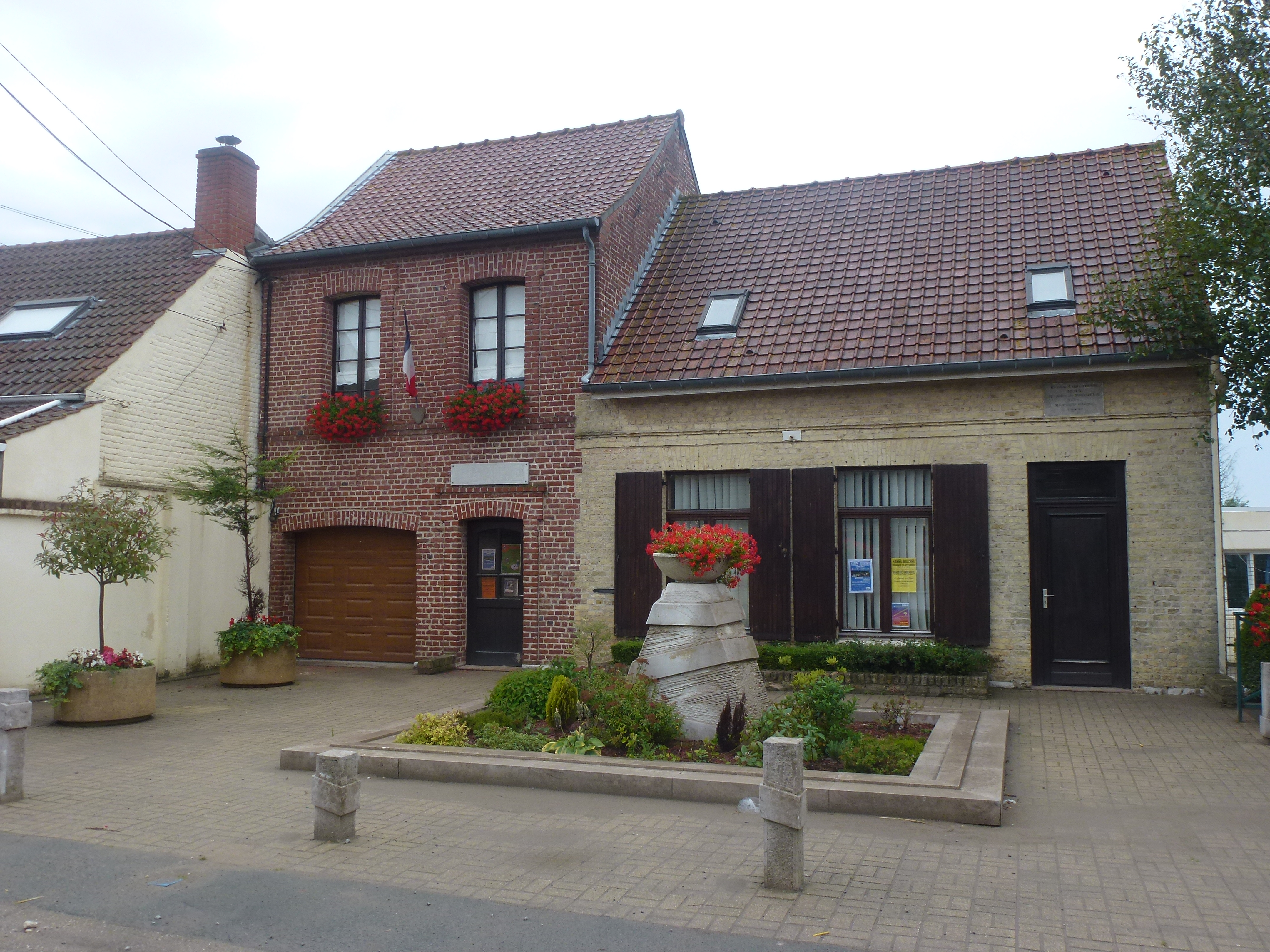 Hames-Boucres (Pas-de-Calais) mairie